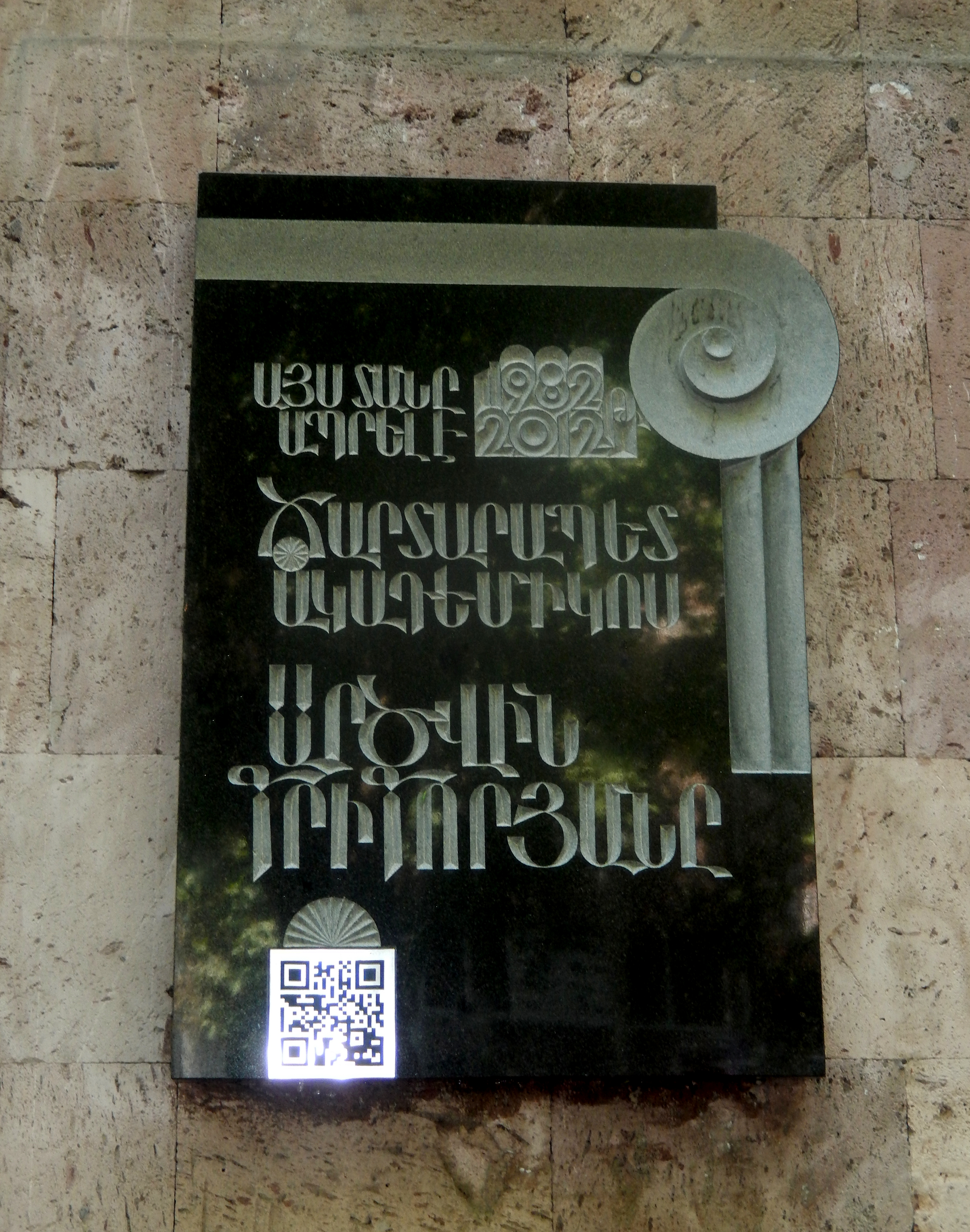 Plaque to Artsvin Grigoryan